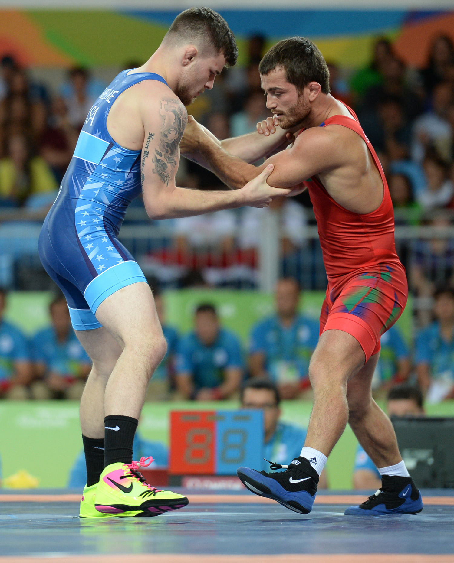 Wrestling at the 2016 Summer Olympics, Bayramov vs Thielke